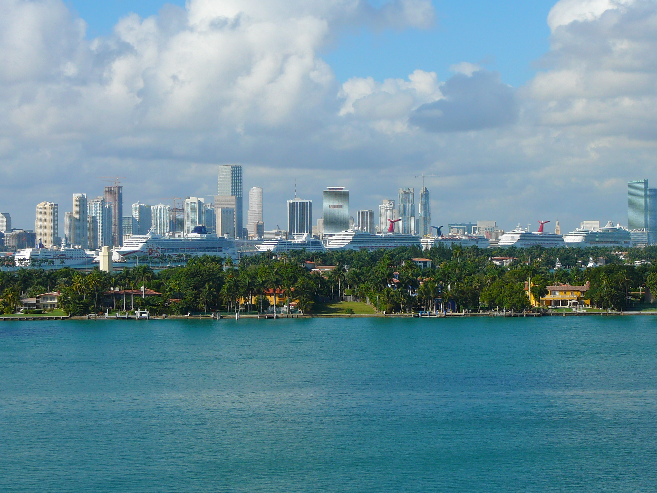 View of Port of Miami 12-08-2007 showing 7 cruise ships docked.